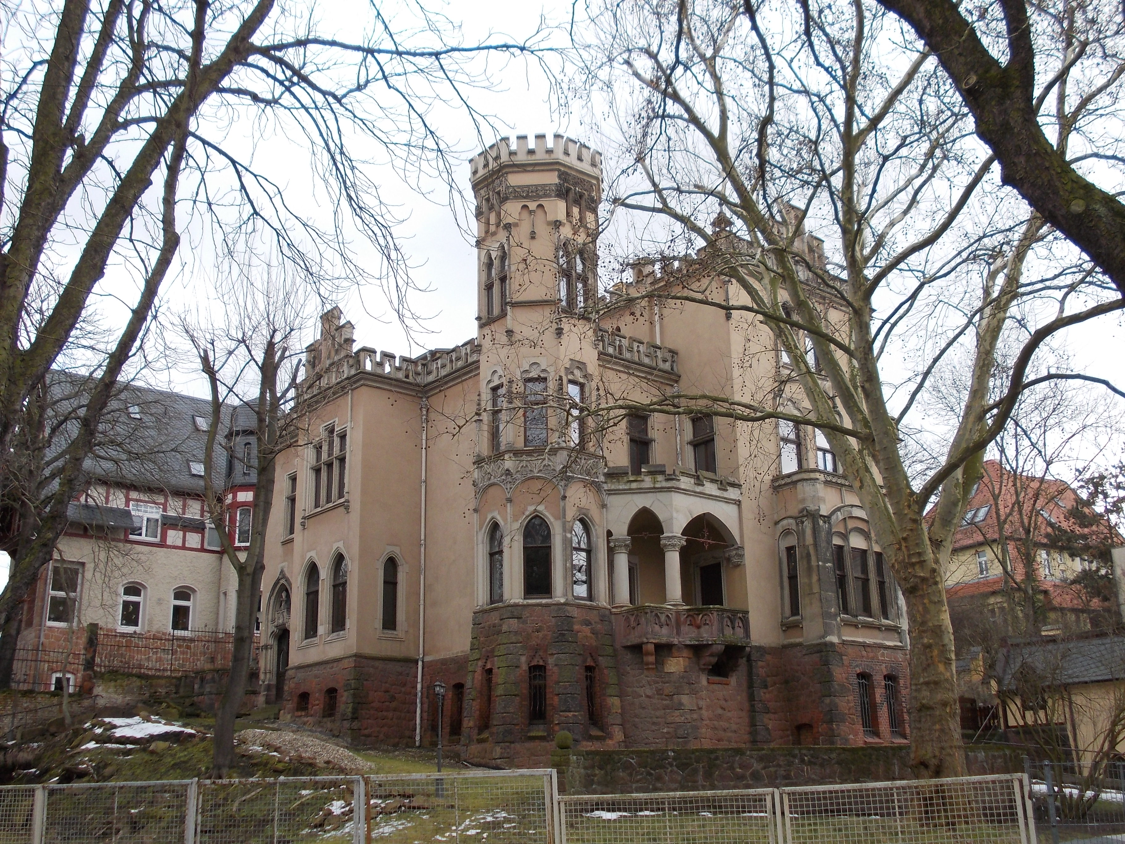 Villa Thumann at Kurallee (No. 8/9) in Halle (Saale)